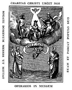 Old coat of arms of the Union of Catholic Apostolate